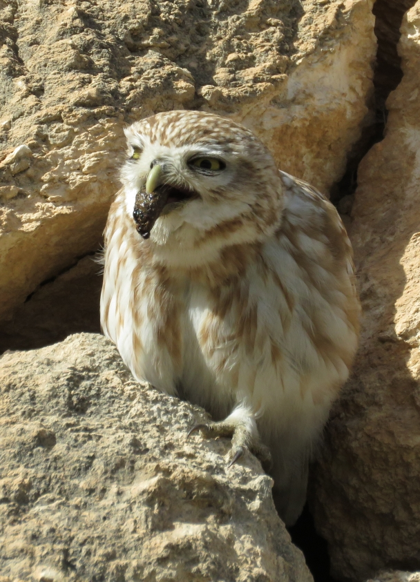 Little owl